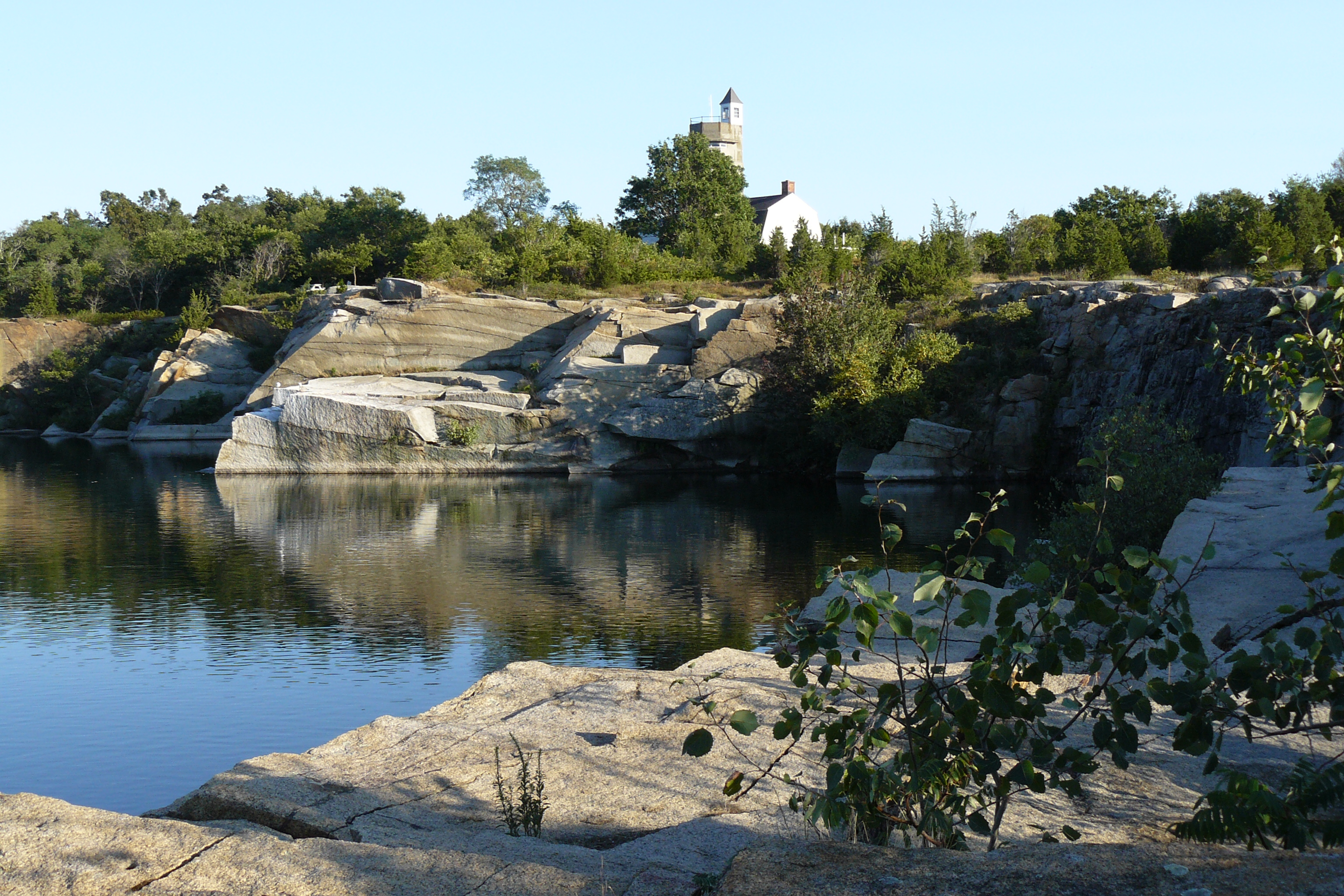 View in the quarry